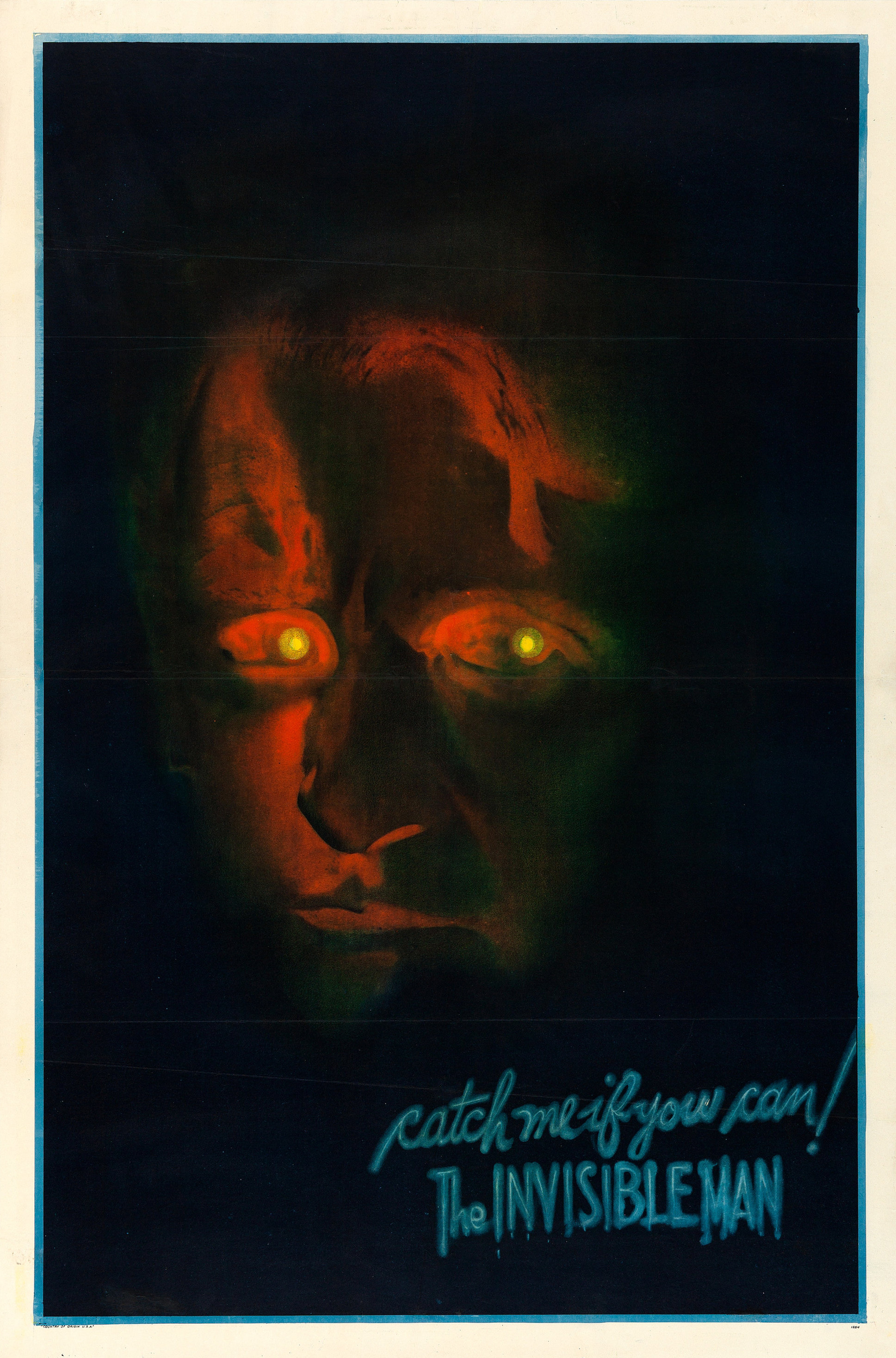 Theatrical release poster for the 1933 film The Invisible Man This is the Style A "teaser" poster.